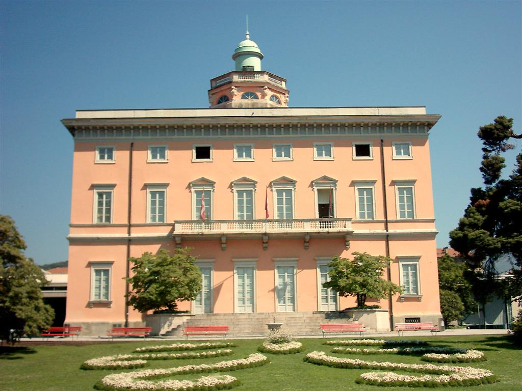 Villa Ciani in Lugano, Ticino, Switzerland.